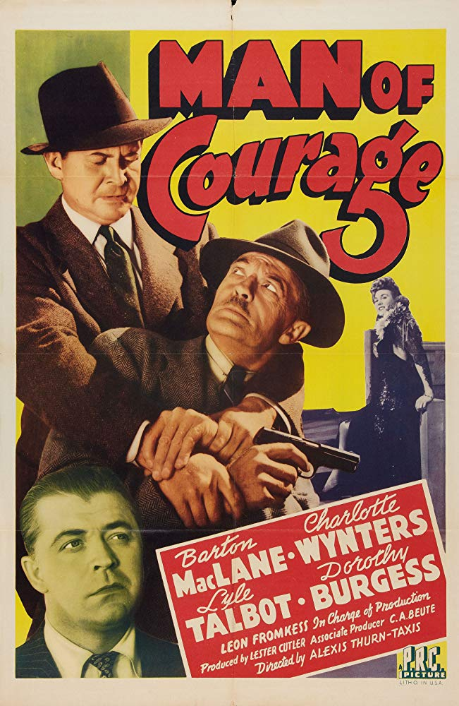 Movie poster for Man of Courage, released in 1943 by Producers Releasing Corporation.